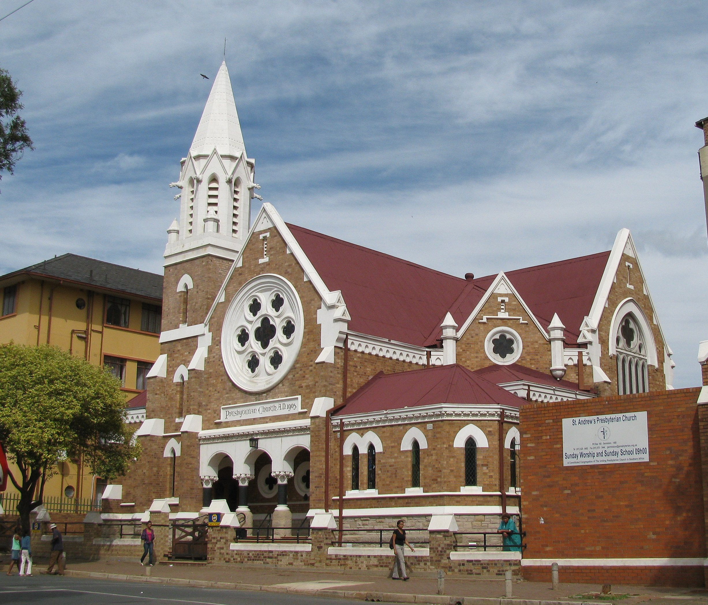 This media shows a South African Protected Site with SAHRA file reference 9/2/223/0011.